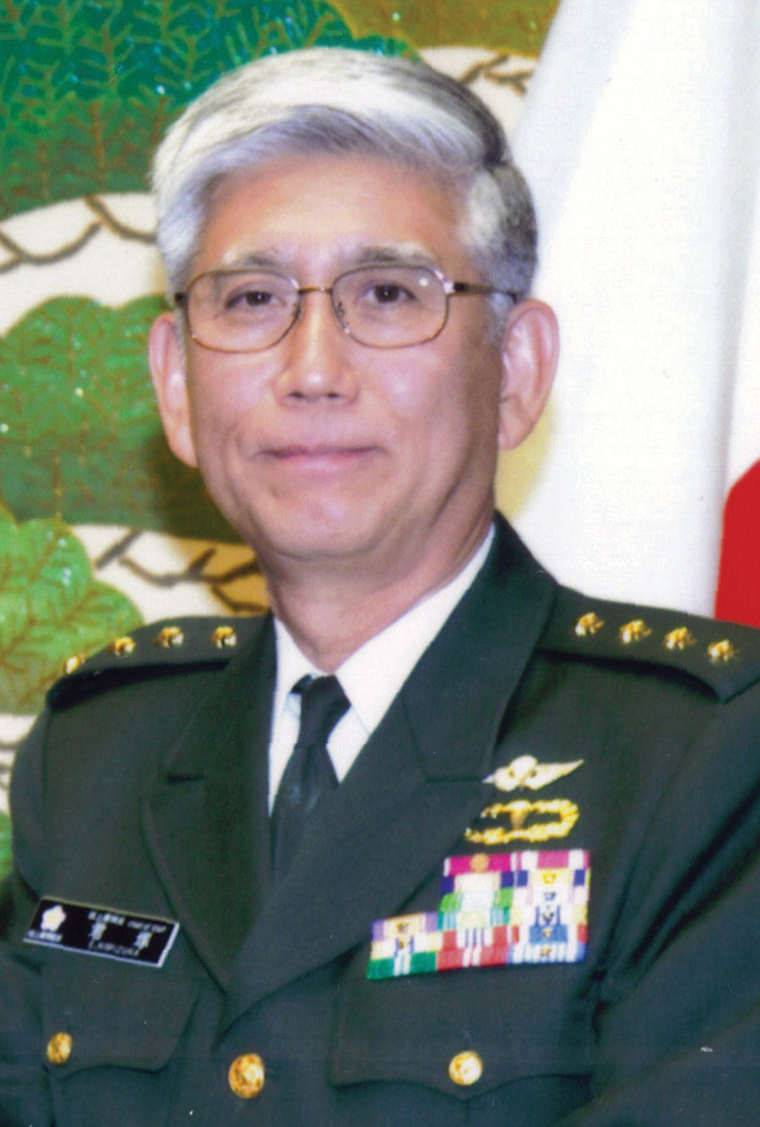 Japan Ground Self-Defense Force Gen. Eiji Kimizuka, Chief of Staff, JGSDF.